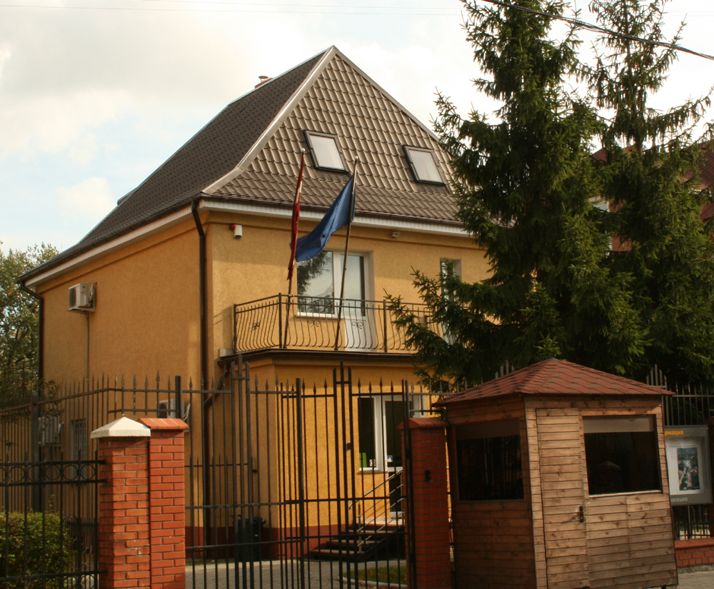 Consulate of Latvia in Kaliningrad